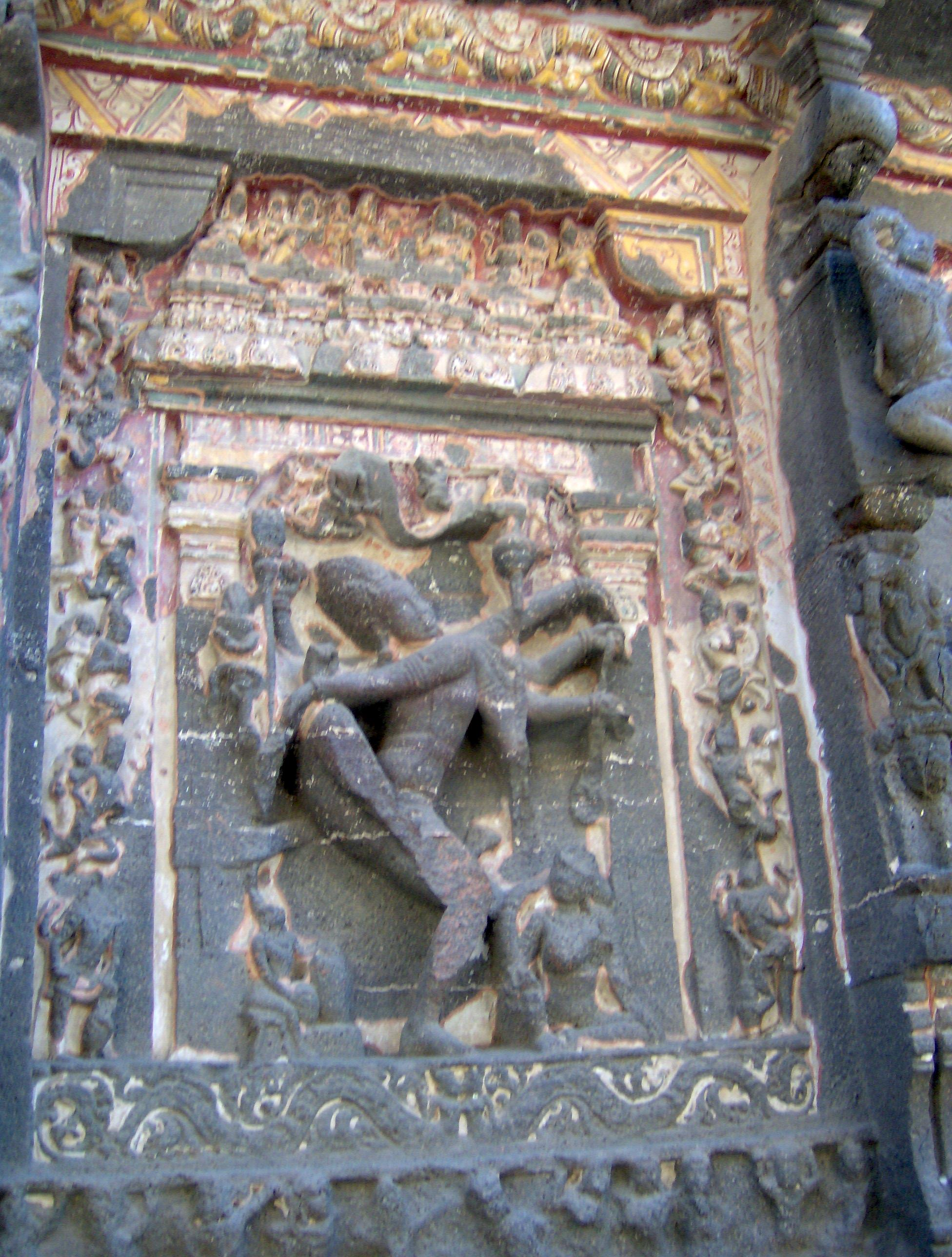 A panel showing the dancing Shiva from the Kailasha temple at Ellora (a.k.a Cave 16). You can still see a lot of the paint that once covered the entire temple. I took the photo myself, and release it under the licenses below. QuartierLatin1968 13:37, 6 December 2005 (UTC)